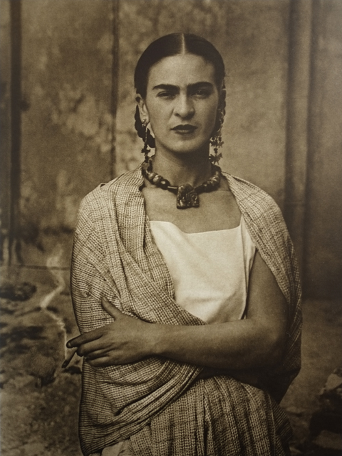 Portrait of Mexican painter, Frida Kahlo.